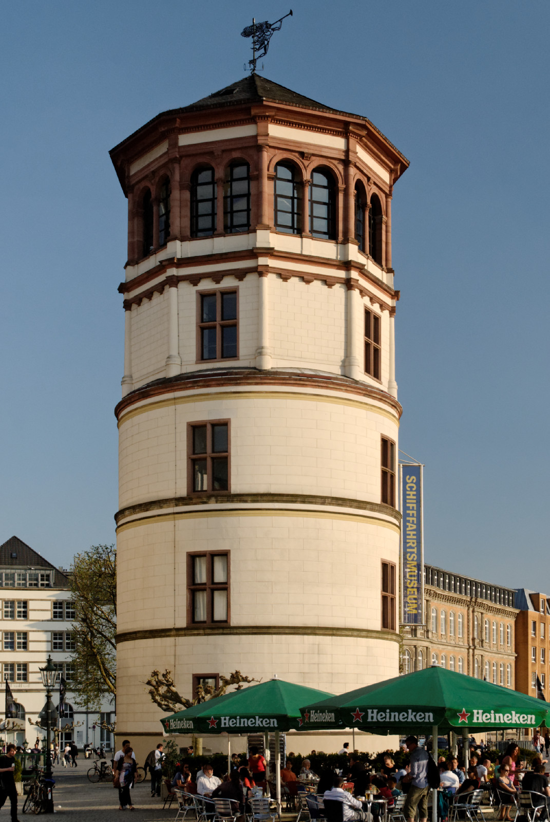 Schlossturm, Burgplatz 30 in Düsseldorf-Altstadt, Germany